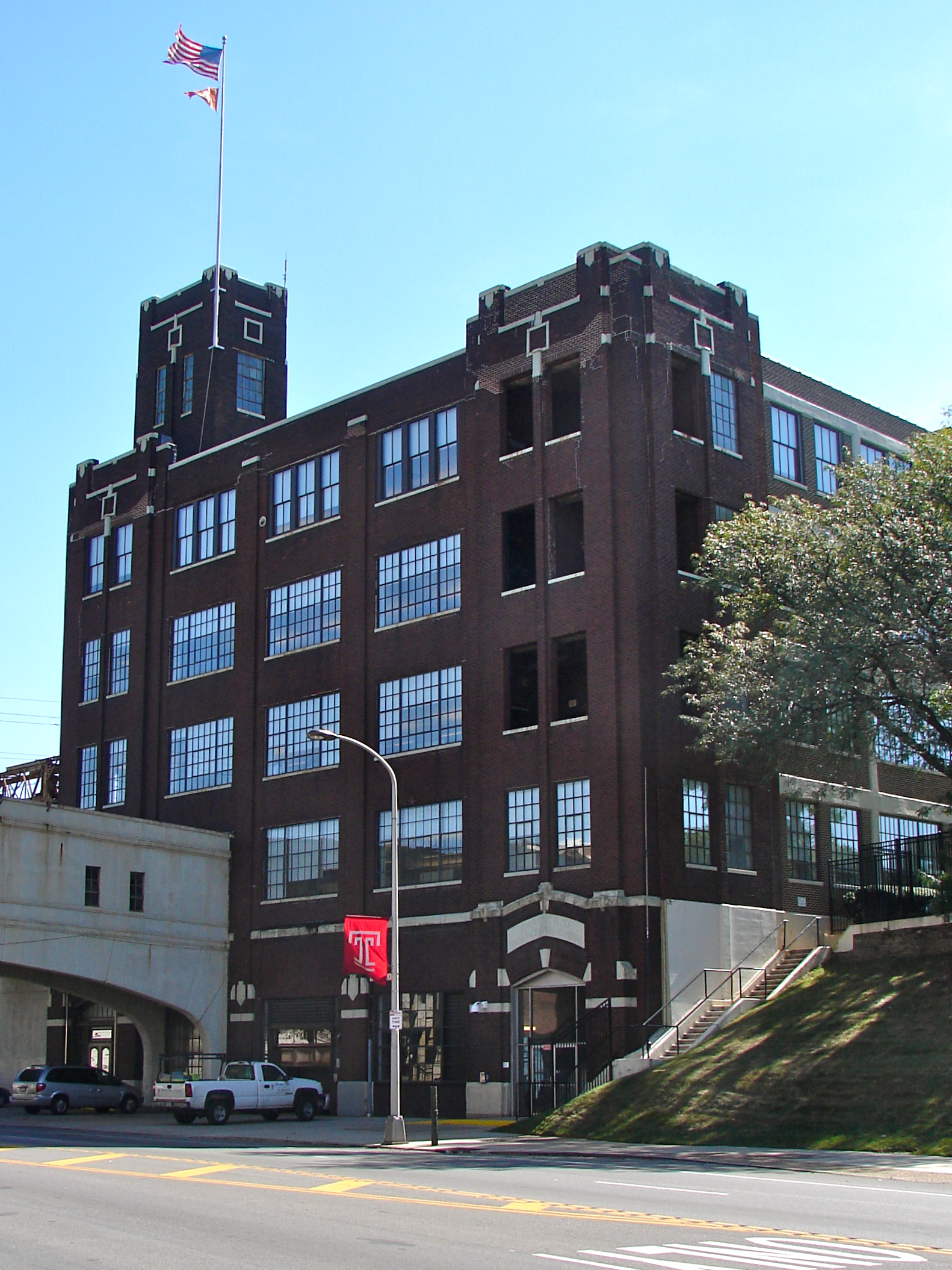 Edward G. Budd Manufacturing Company in Philadelphia on the NRHP since December 27, 2007. At 2450 West Hunting Park Ave. in the Hunting Park Industrial Area of North Philly. Home of stainless steel welding and rail and subway car manufacturing (among other things). Now used as an administrative center by Temple University.